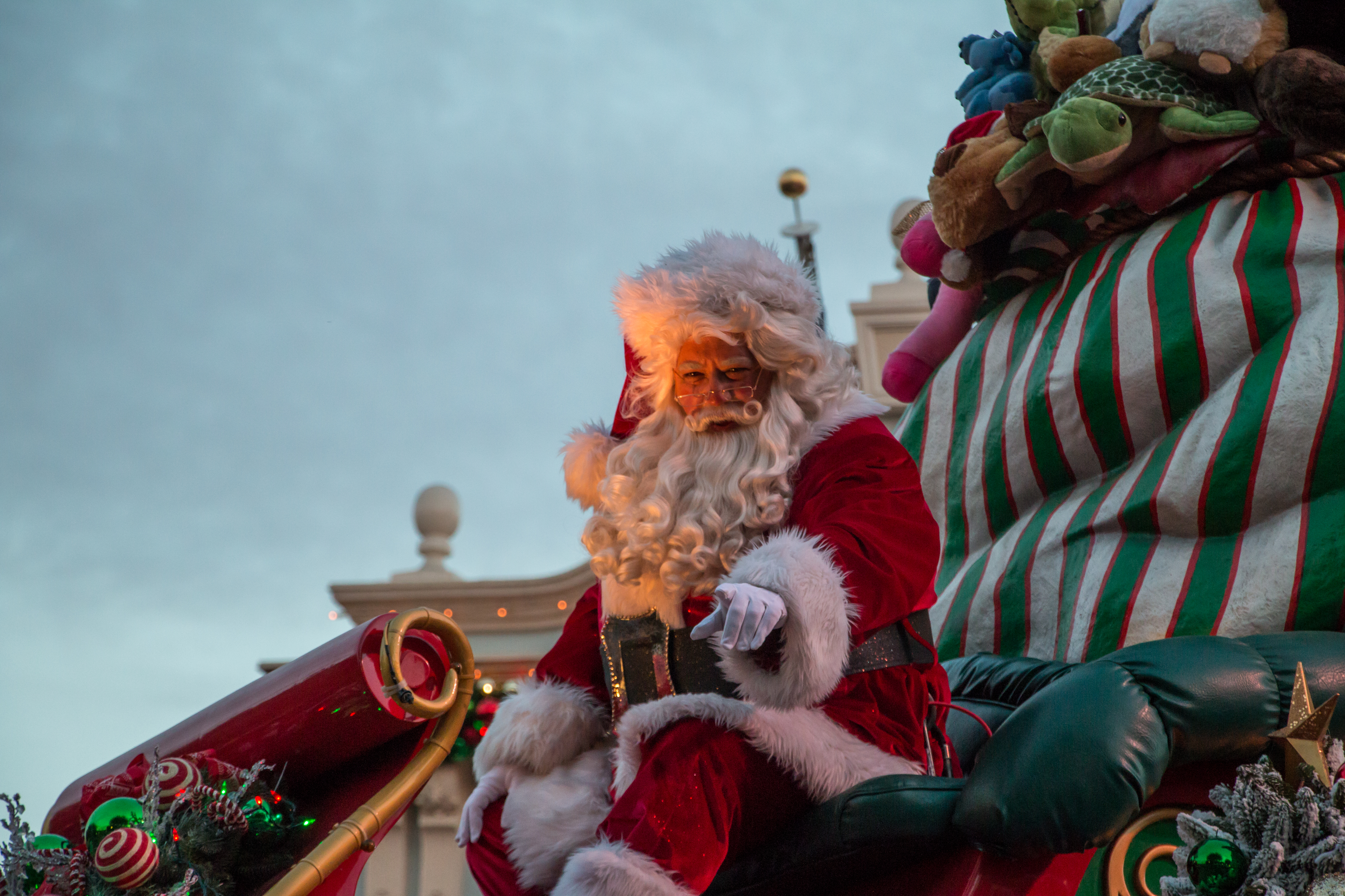 Disneyland's "A Christmas Fantasy Parade" as seen from Main Street on November 12, 2016.